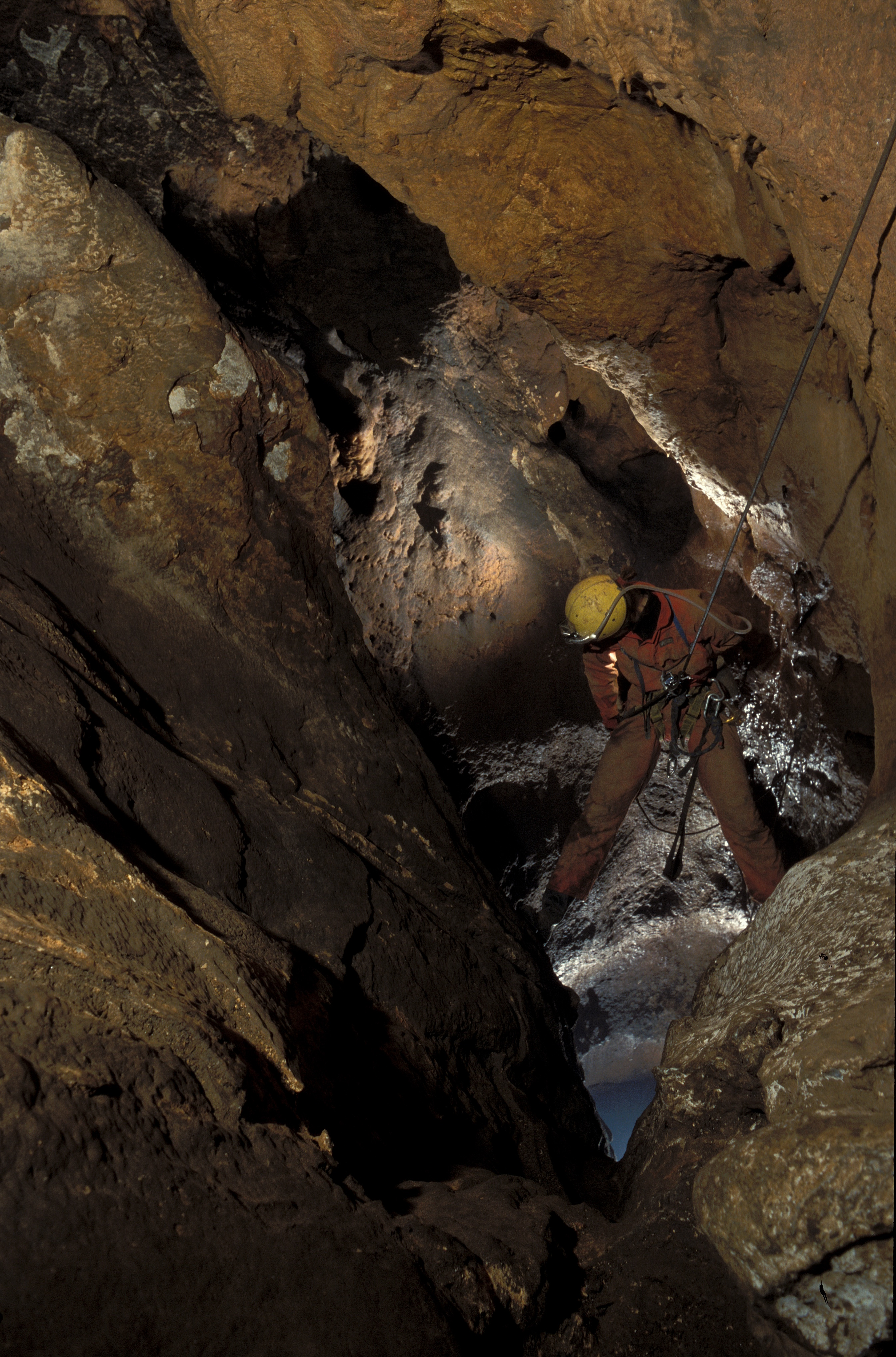 Bottomless Pit in Miners Cave, Hungary, Bükk Mountains